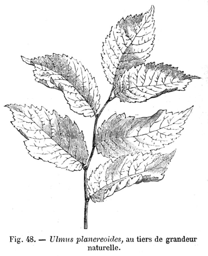 Ulmus 'Planereoides' from Revue horticole, 1875